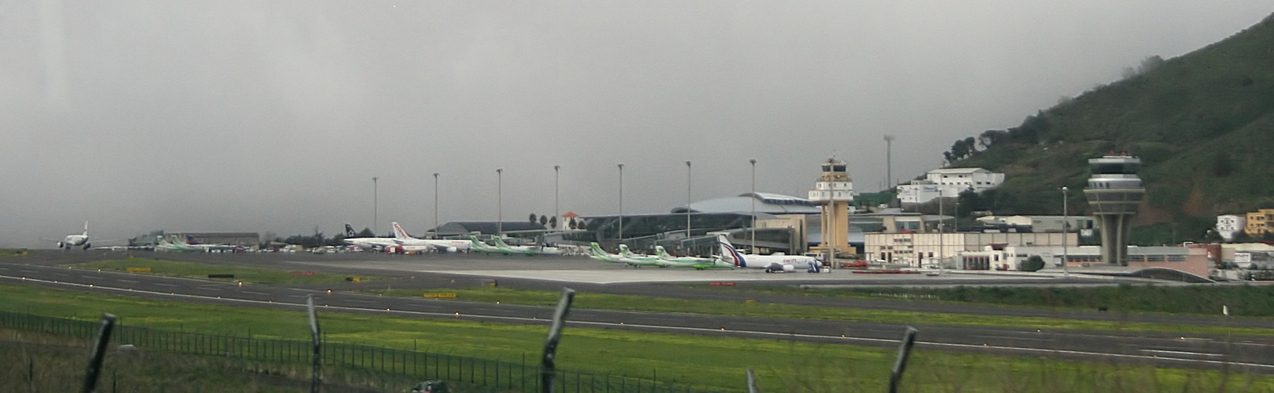 Spain, Canary Islands, Tenerife, La Laguna: Tenerife North airport.